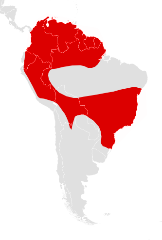 Distribution of Anoura caudifer